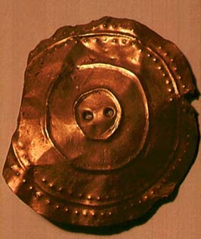 The Banc Ty'nddôl sun-disc.